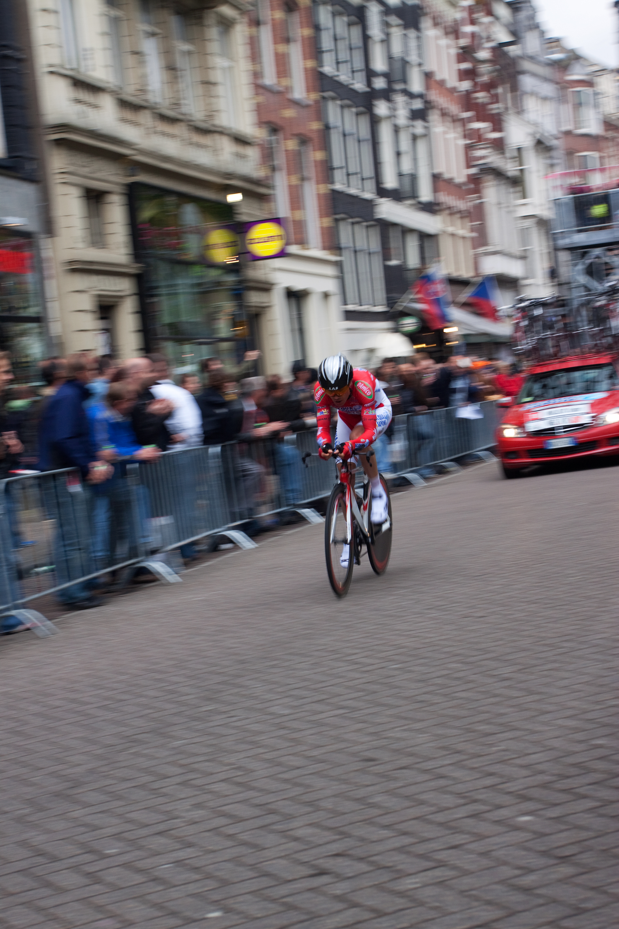 Vladimir Miholjević for Acqua & Sapone on day 1 of the 2010 Giro d'Italia in Amsterdam, the Netherlands.